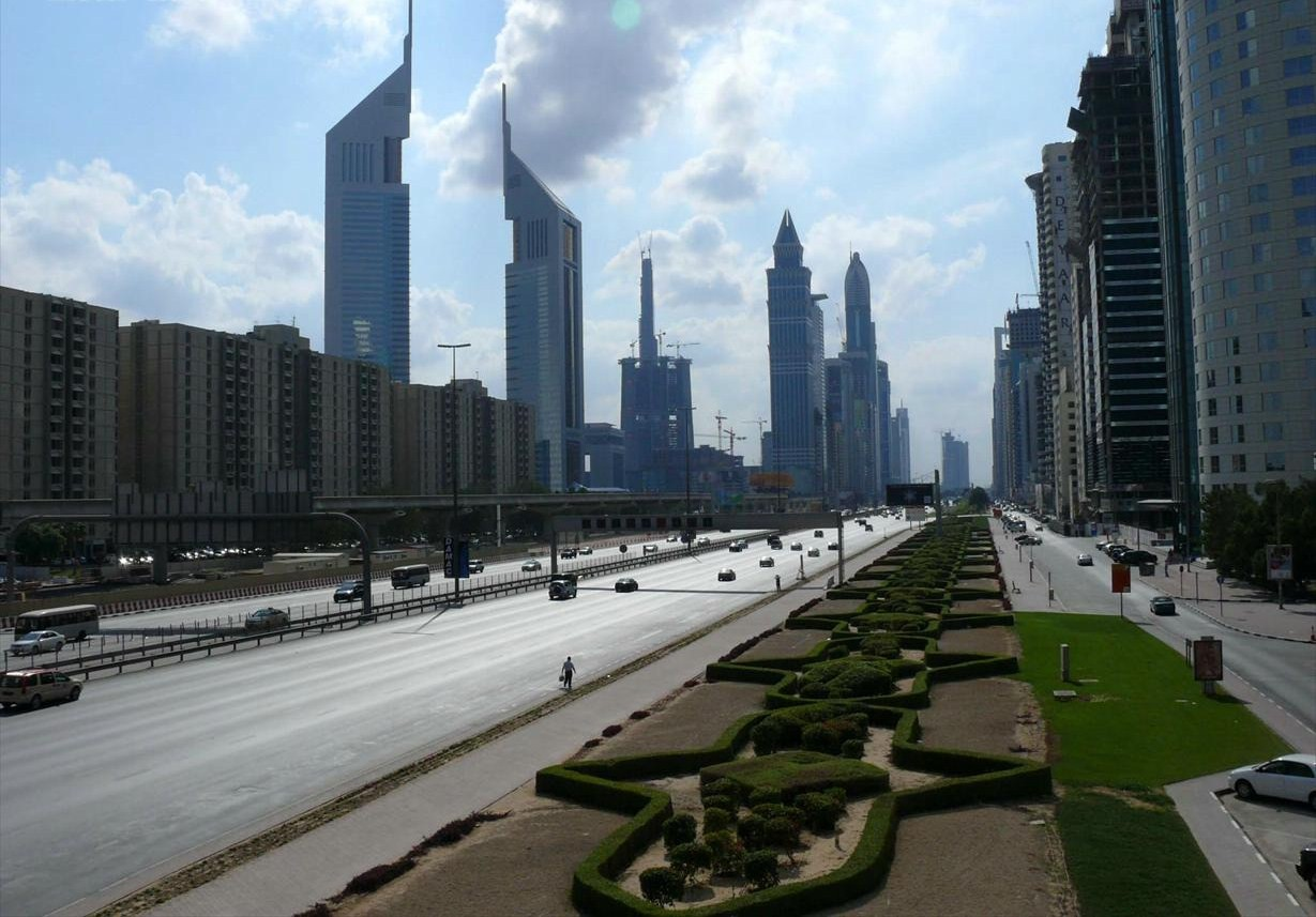 This is a photo showing Sheikh Zayed Road in Dubai, United Arab Emirates on 28 December 2007.